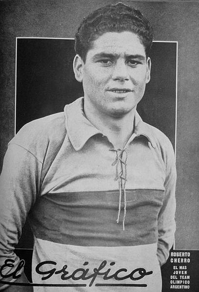 Roberto Cherro wearing the Boca Juniors jersey in 1928.